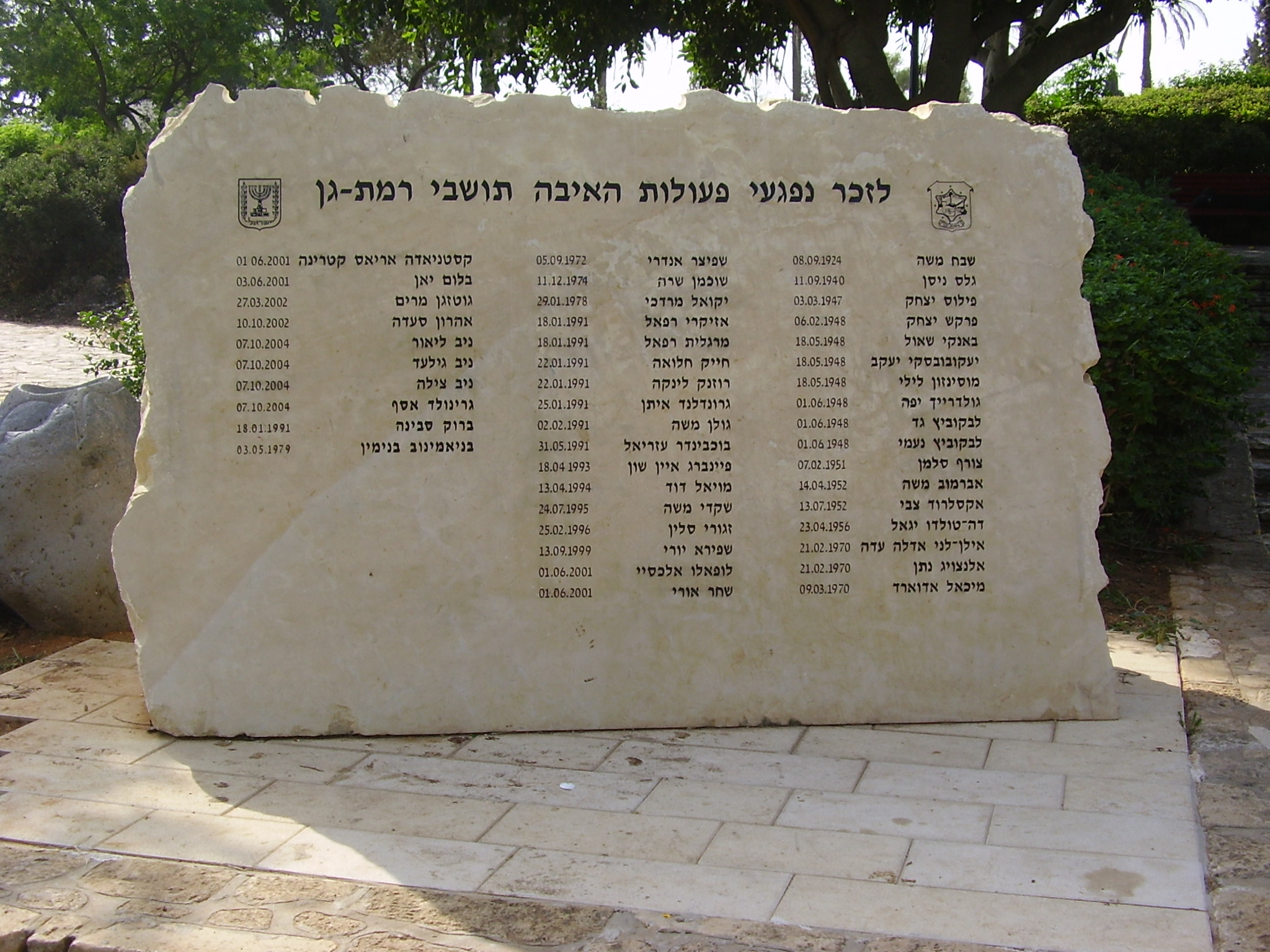 teror victims memorial in ramat-gan